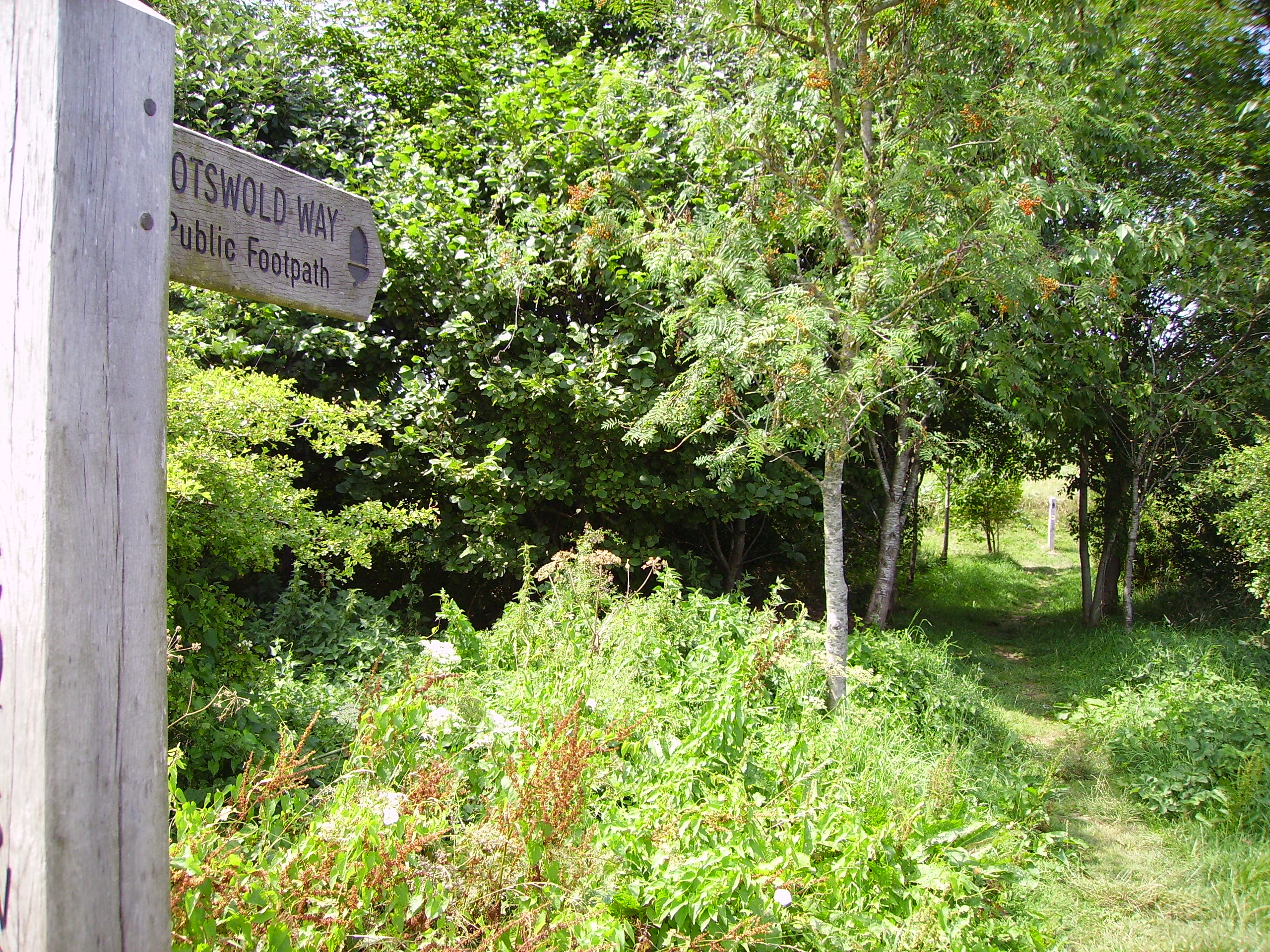 Photographer: User:Ballista